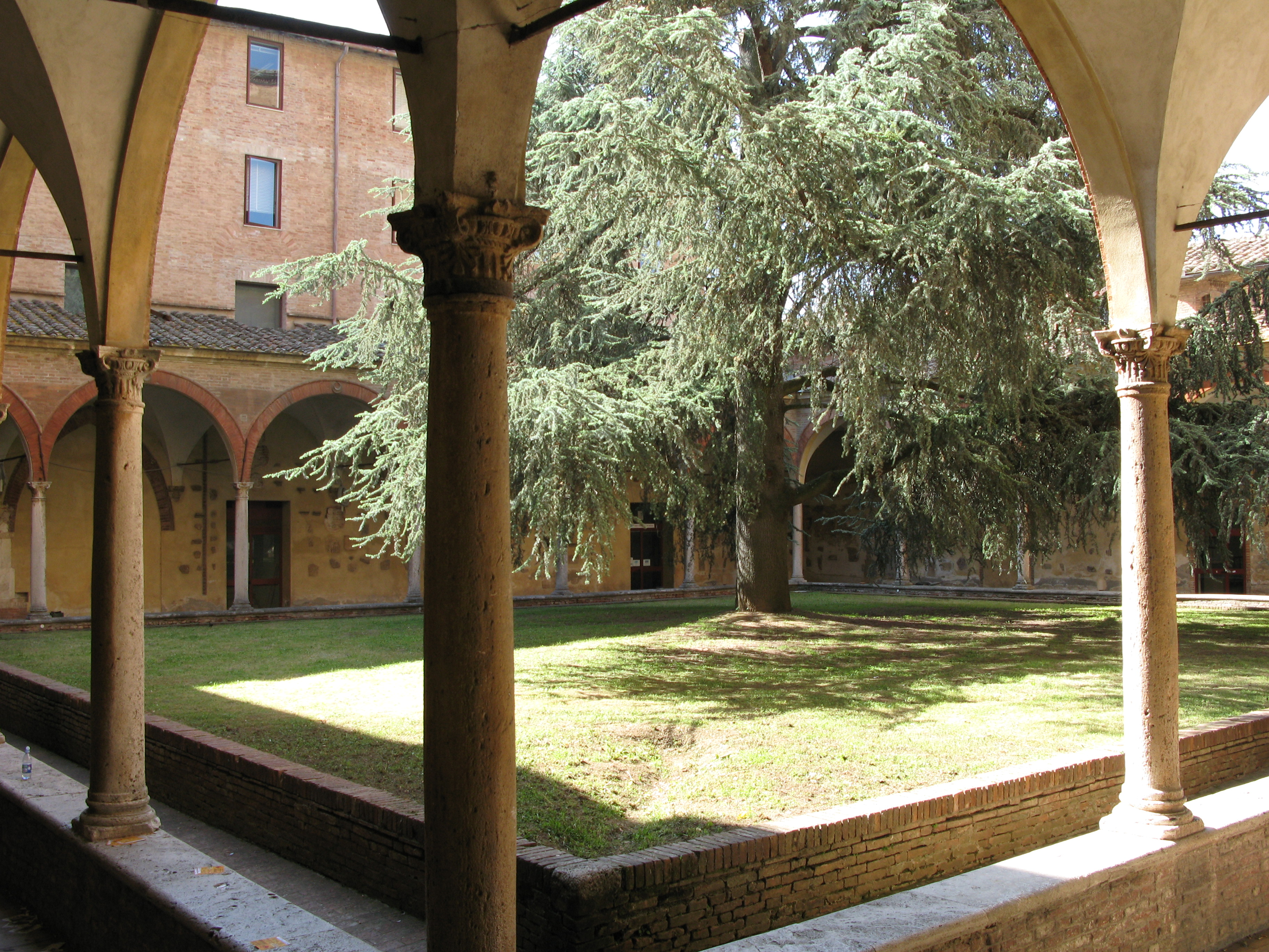 San Francesco cloistre, Economics Department, University of Siena